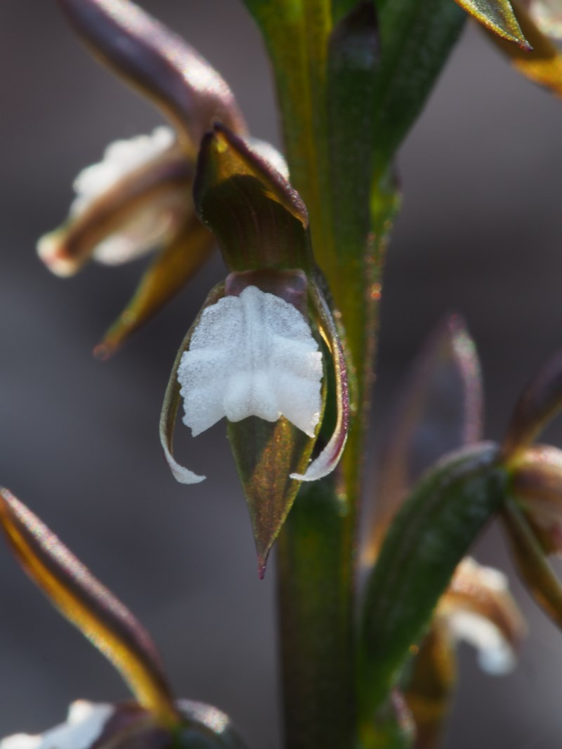 Close up of Prasophyllum brevilabre